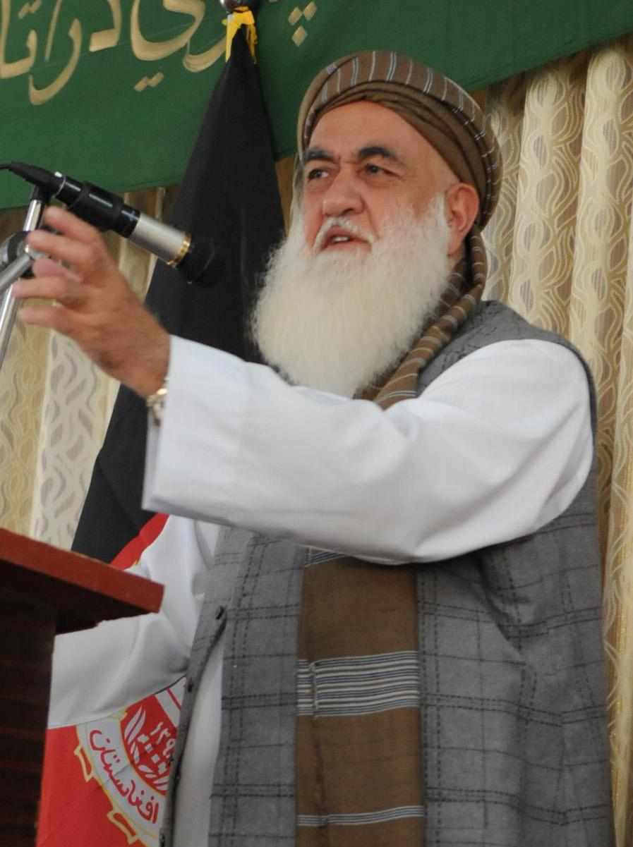 Qazi Mohammad Amin Waqad, a member of the Kabul High Peace Council, talks to more than 250 Zabul village and district elders during a jirga held May 7, 2011 in the capital city of Qalat. The jirga wrapped up a two-day visit with Minister Mohammad Masoom Stanekzai, chief executive of the Afghanistan Peace and Reintegration Program, which yielded several productive meetings regarding the local provincial peace council and the future reintegration of Taliban commanders and fighters, and the contract signing of the Provincial Joint Secretariat Team. Other key officials from Afghanistan's National Directorate of Security and High Peace Council, the Afghan national army and police, several provincial district governors, members of the newly approved Zabul Provincial Joint Secretariat Team, as well as members of the local provincial reconstruction team and the International Security Assistance Force were also present. Photo by Master Sgt. Michael O'Connor